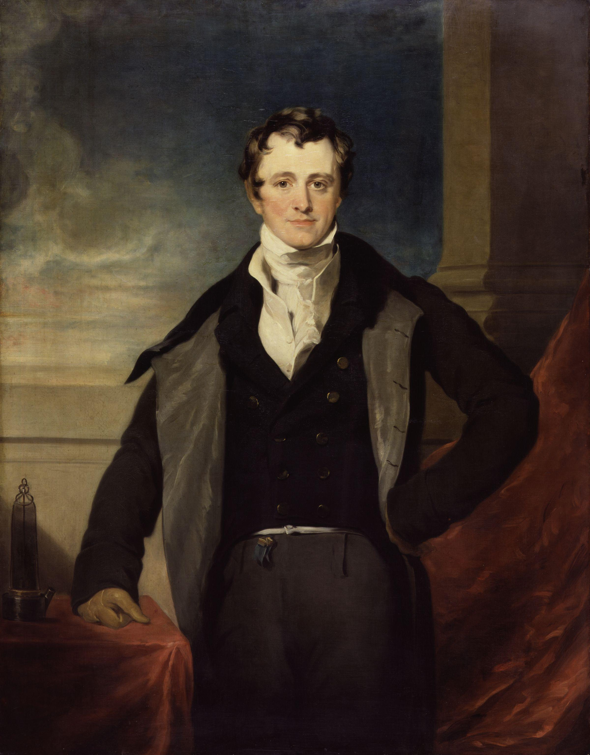 Sir Humphry Davy, Bt, by Sir Thomas Lawrence (died 1830). All images in this batch have been confirmed as author died before 1939 according to the official death date listed by the NPG.